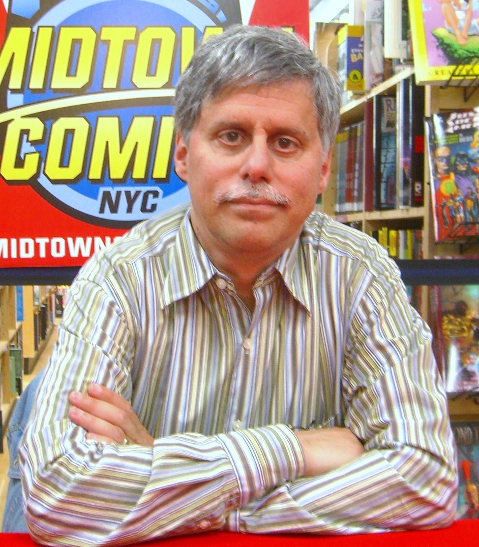 Writer/editor Paul Levitz at Midtown Comics Times Square in Manhattan, on Saturday, May 22, 2010, promoting the launch of Legion of Superheroes (volume 6) #1, which came out three days earlier. Photo by Luigi Novi. This photo may be used and modified, for any purpose, only if the photographer is visibly credited in each instance in which it is used. (See licensing information below.) For more information on my photos, you can contact me here.